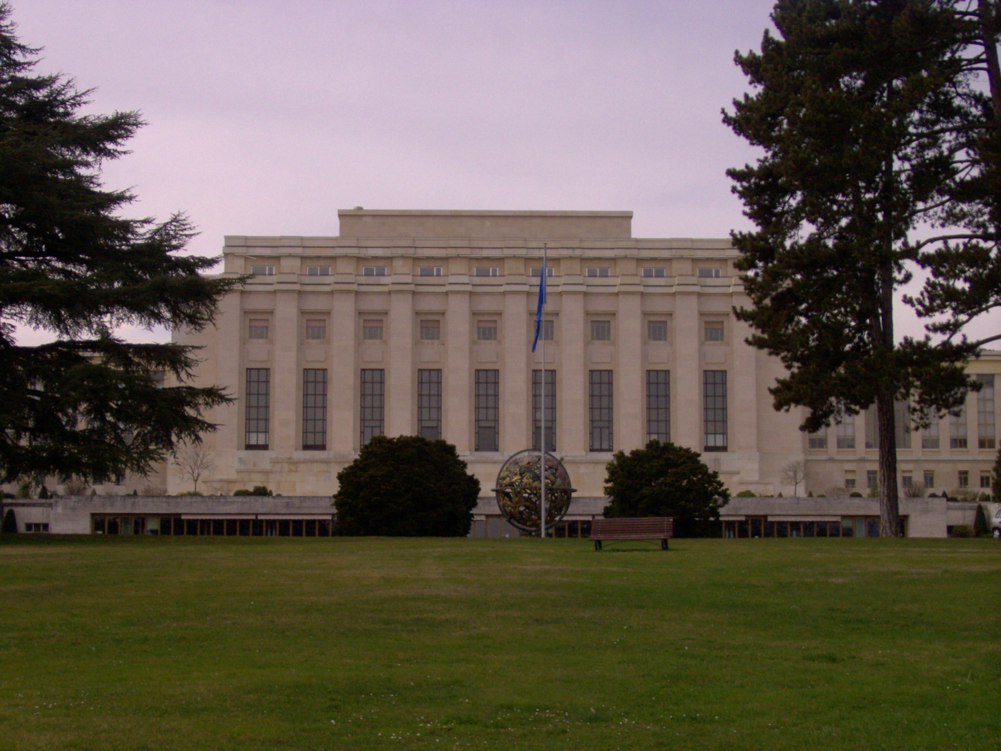 United Nations Office at Geneva